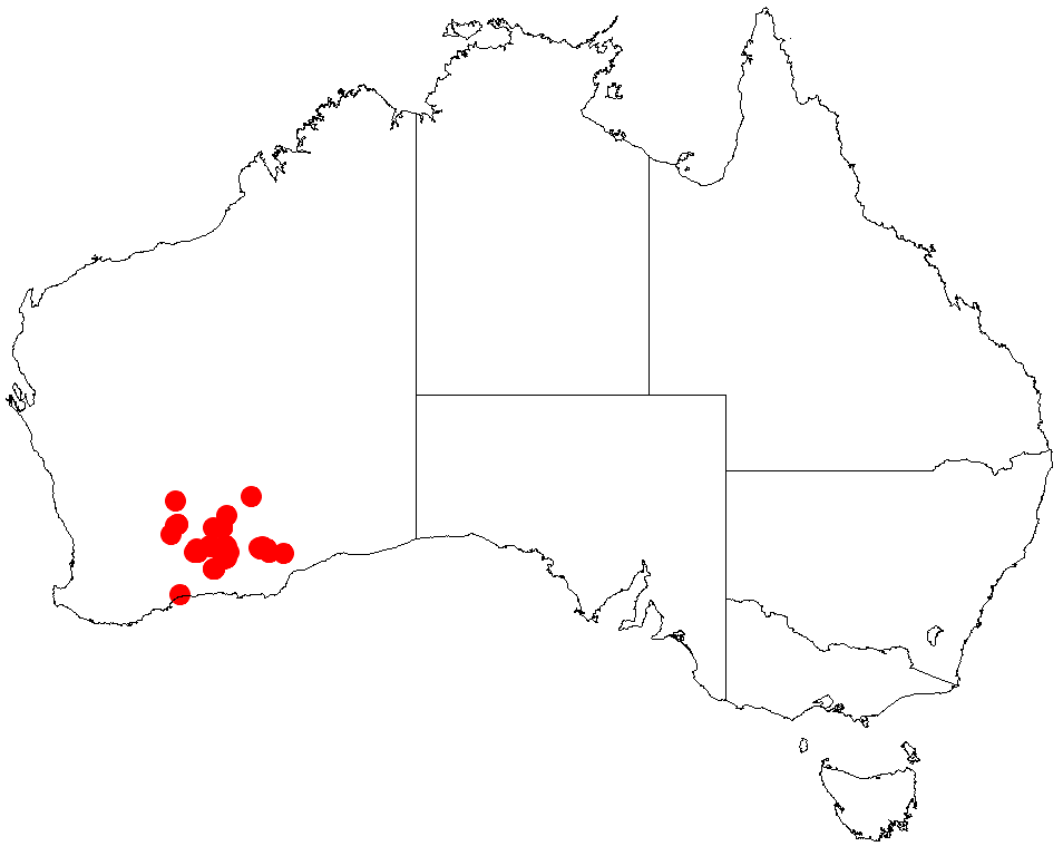 Acacia warramaba occurrence data from Australasia Virtual Herbarium downloaded from on 8 December 2018